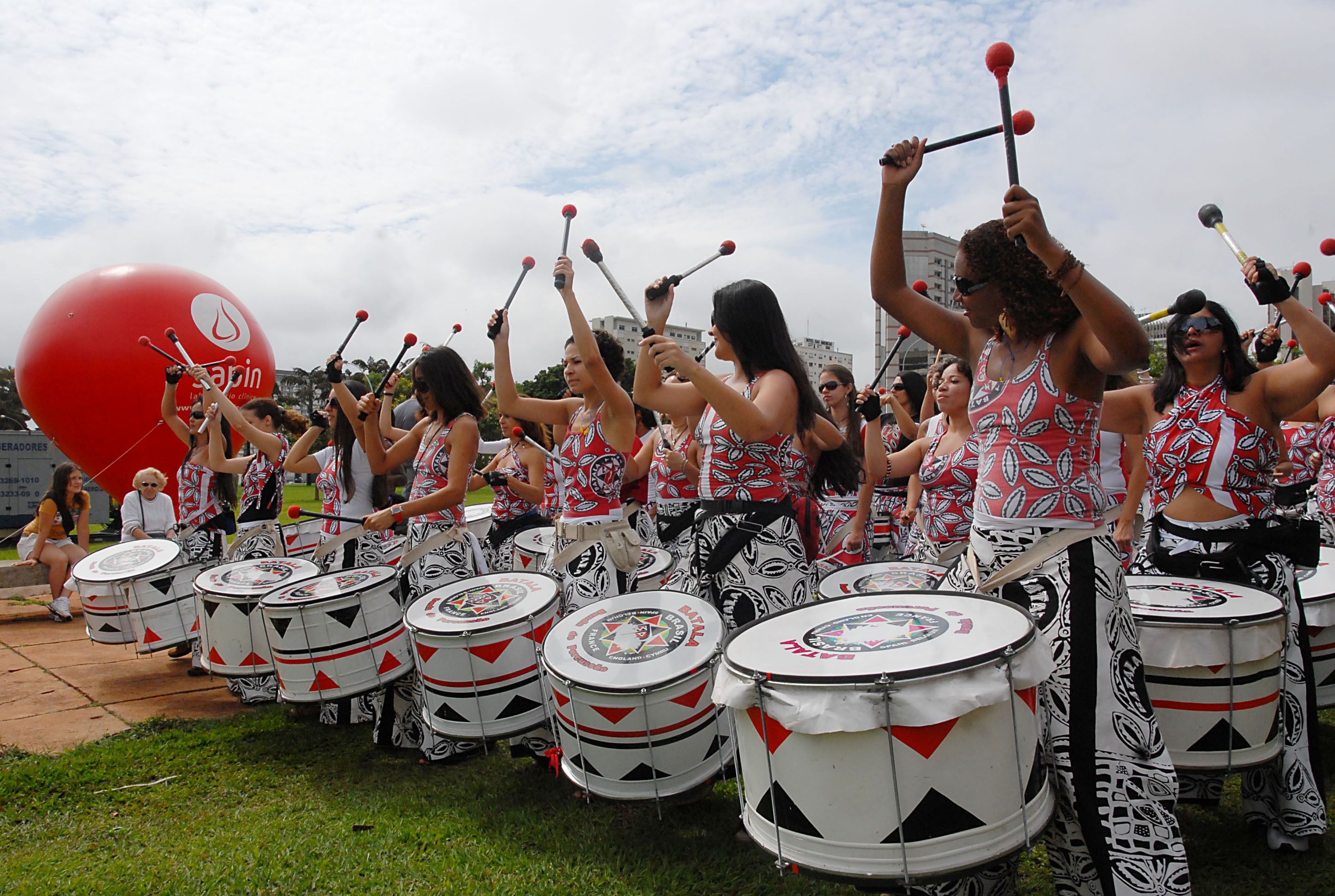 Batala drummers